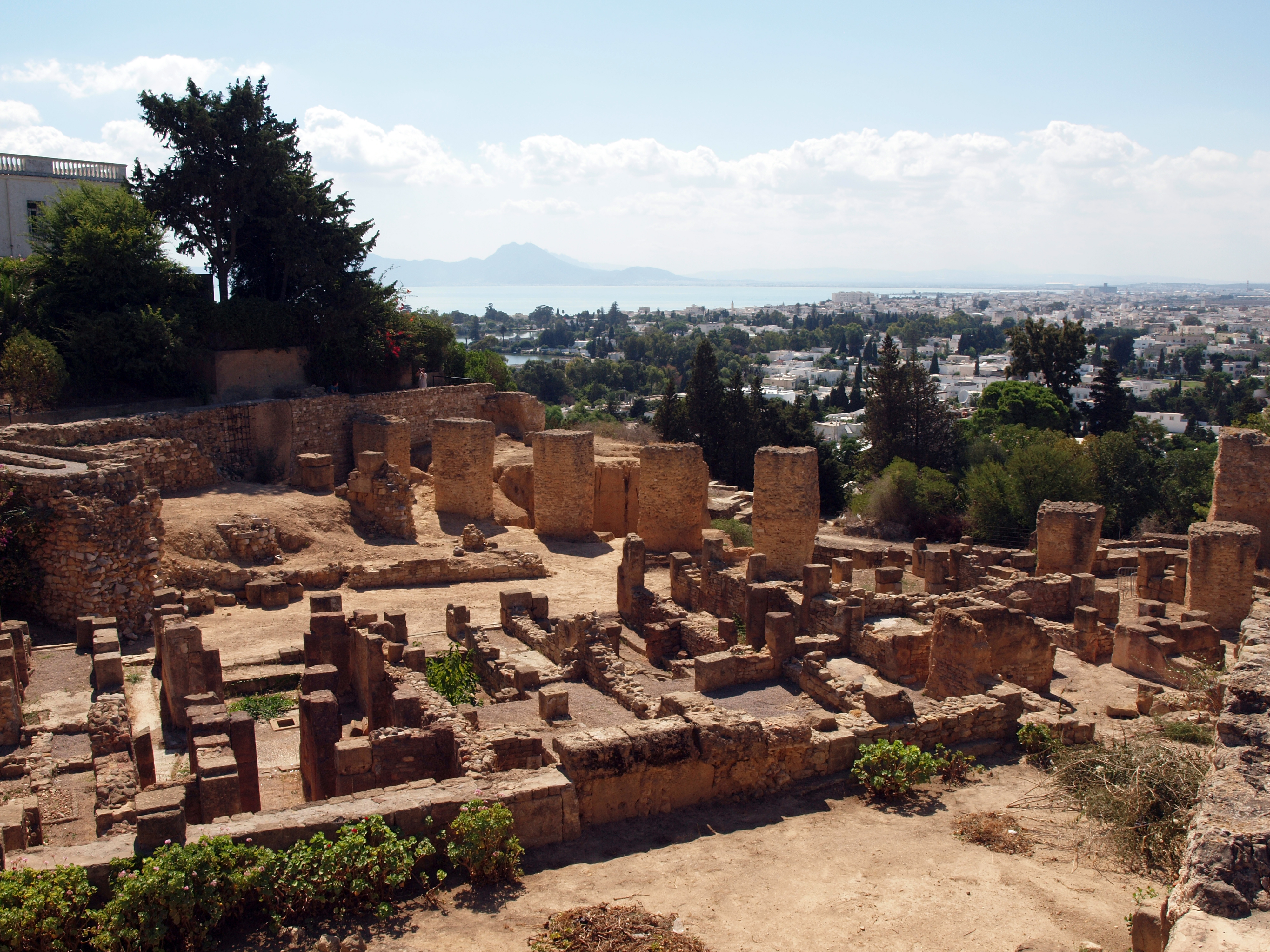 Carthage, Birsa